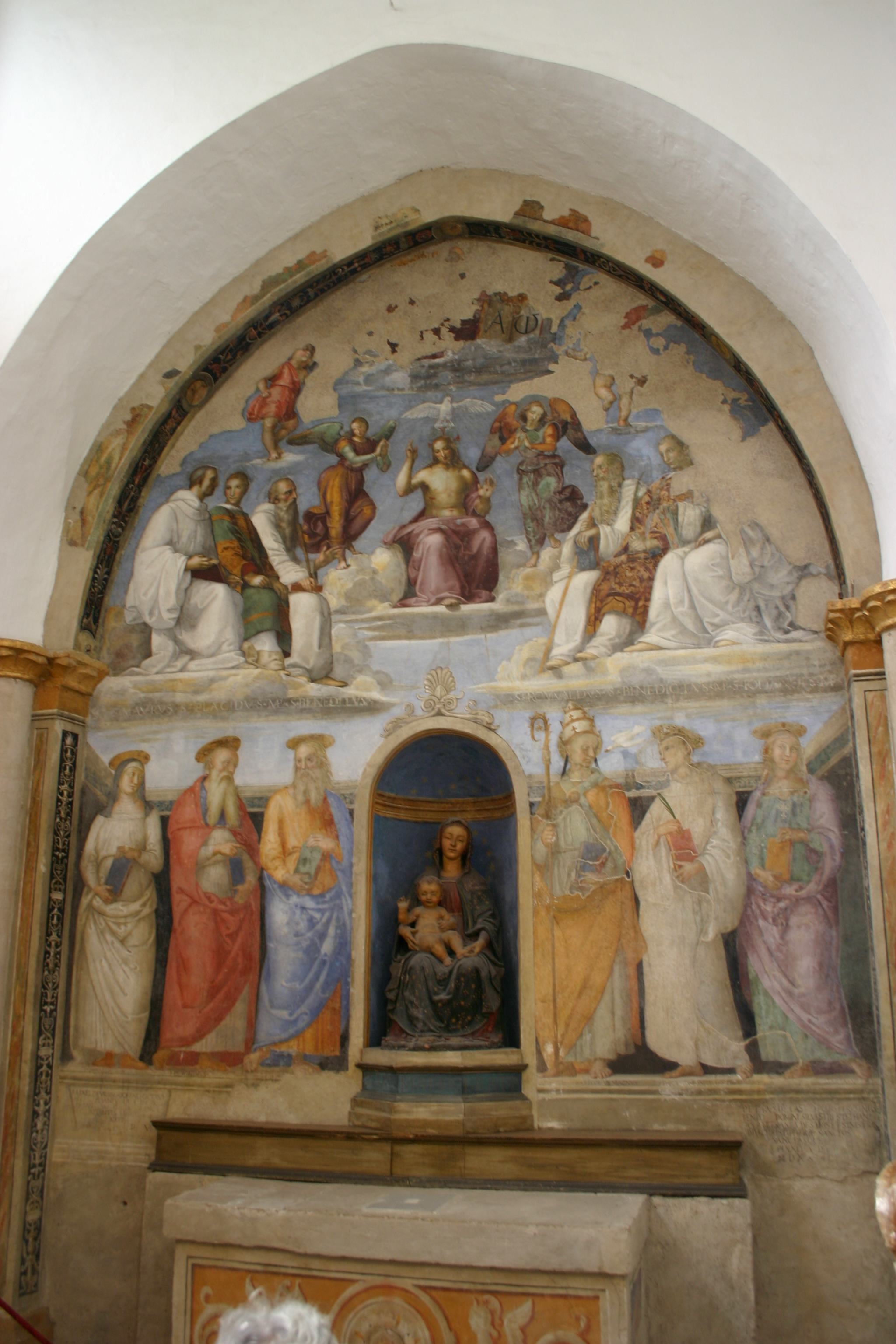 Perugia, San Severo chapel. The upper fresco was painted by Raffaello (1500 - 1505), the lower part by Perugino (1520). Picture by Giovanni Dall'Orto, August 6, 2006.